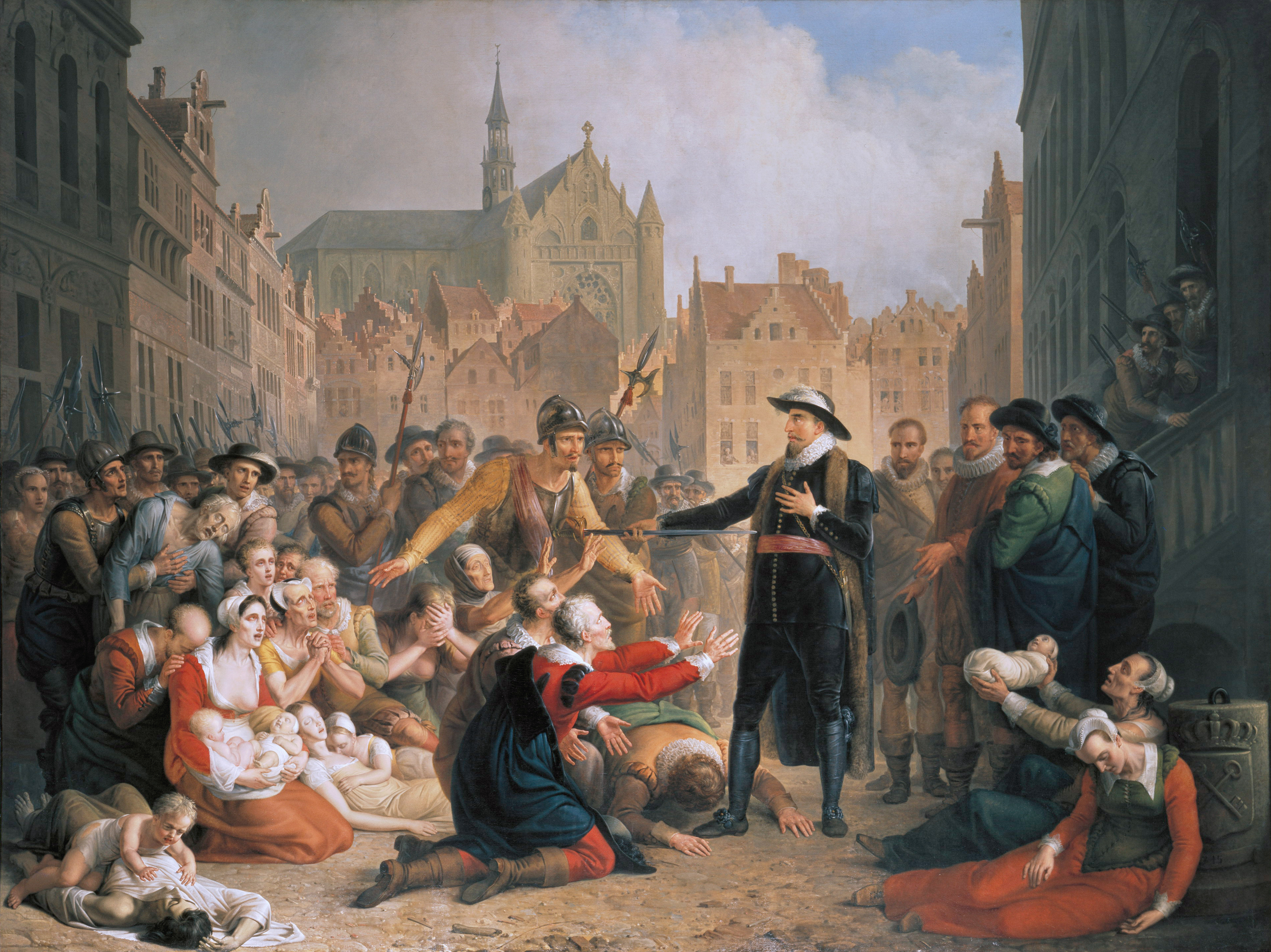 Burgomaster van der Werf offers his sword to the people of Leiden